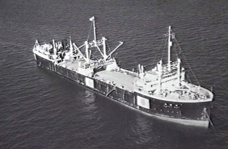 Japanese whaling factory Nisshin Maru (1936), with national flag painted on her side to indicate her non-combatant status.